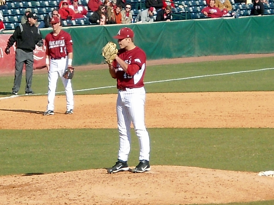 Jalen Beeks pitches for the Arkansas Razorbacks baseball team vs the Evansville Purple Aces in Baum Stadium, Fayetteville, Arkansas